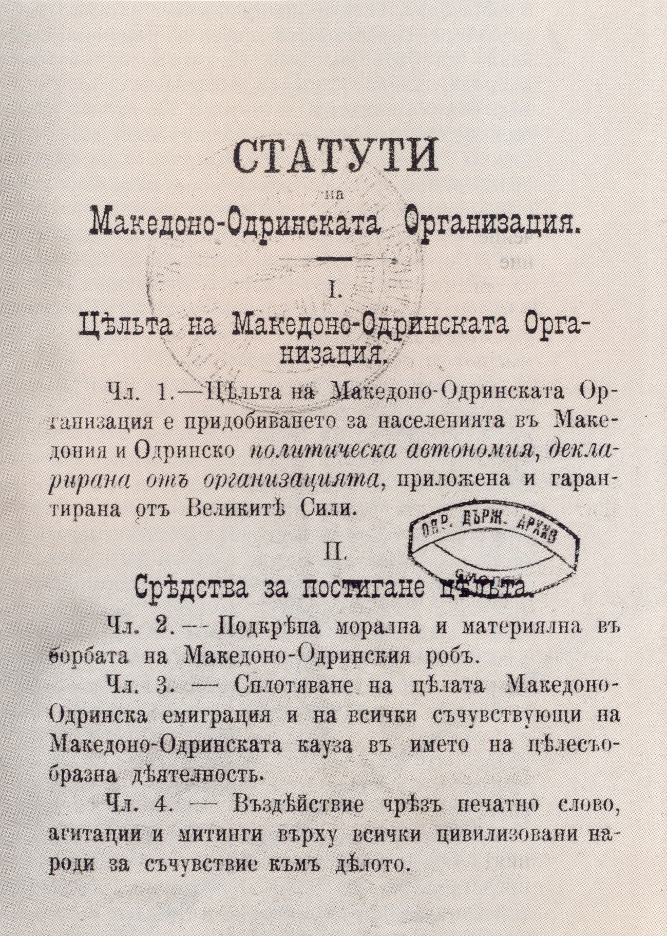 Statutes of the Macedonian-Adrianopolitan Organization (VMOK), 1900 (front page)